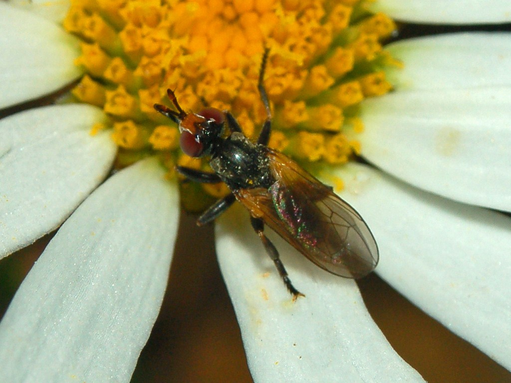 T. atra